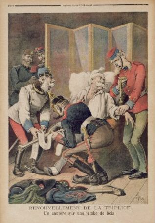 French cartoon showing the ill health of the Triple Alliance.